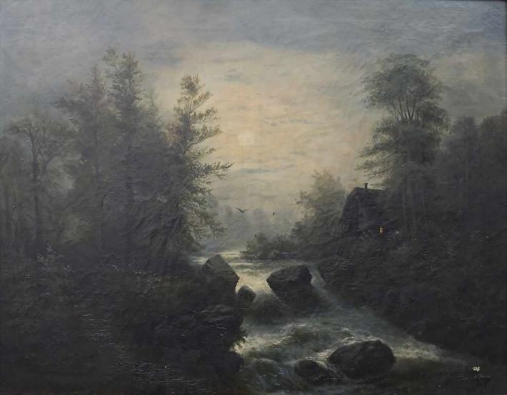 Painting by Ludwig Pietsch (1824-1911)